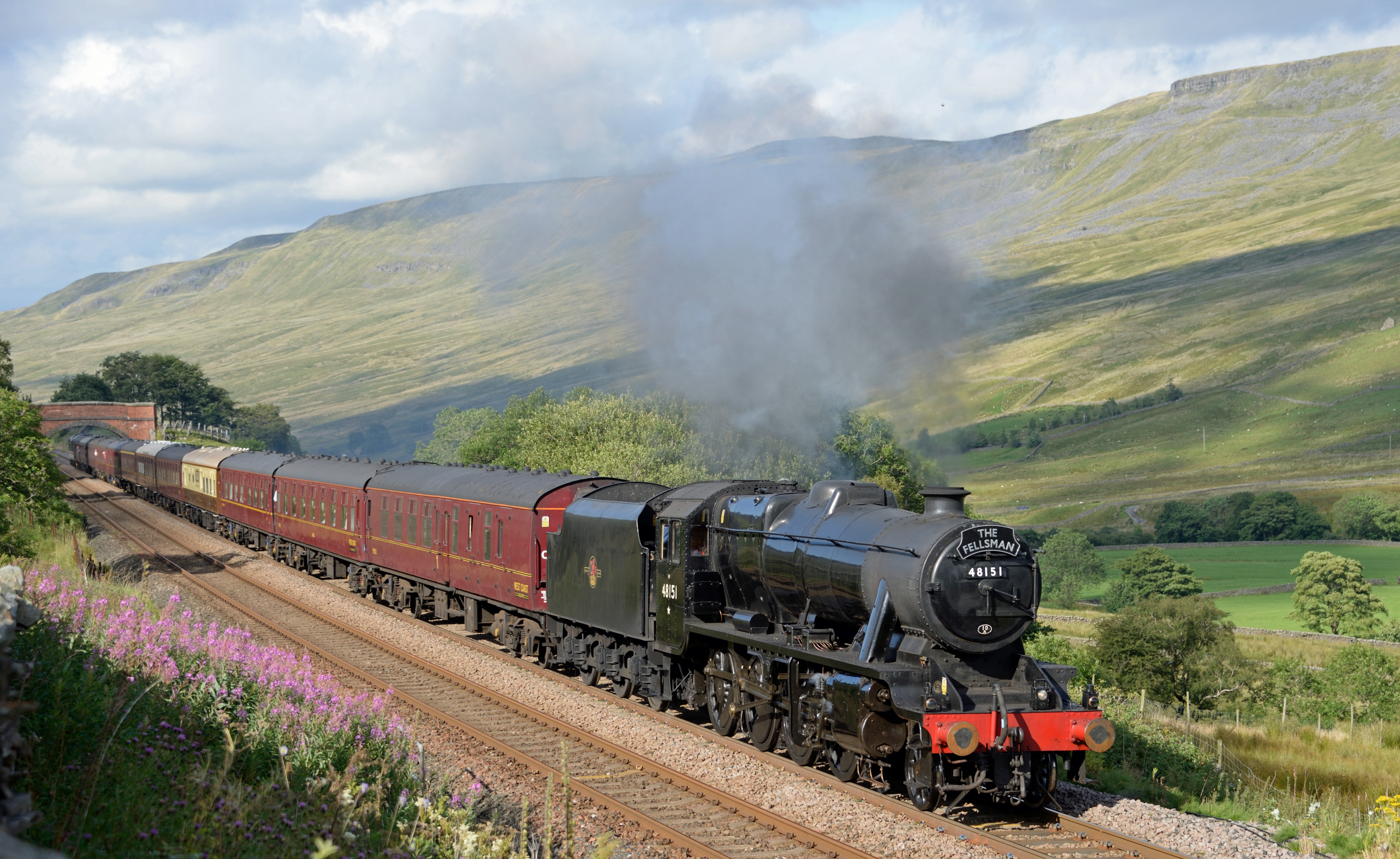 Probably my favourite location to watch steam pass by. A squelchy mile or so to walk but the engine's working hard and the Mallerstang Edges above the Eden Valley provide the backdrop. The bonus was that this was a fleeting sunny interval on this side of the valley. Very lucky.